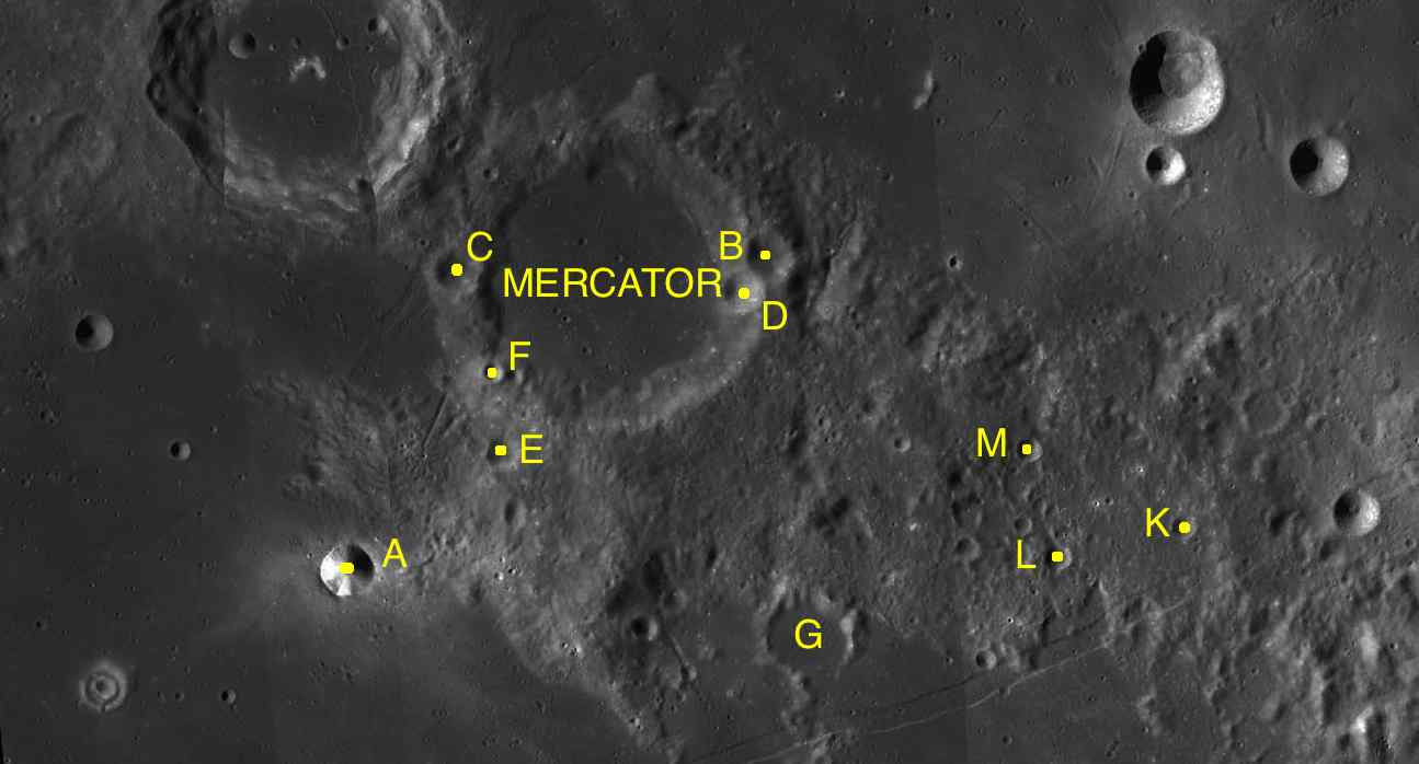 Part of the chart LAC-94 used for the presentation